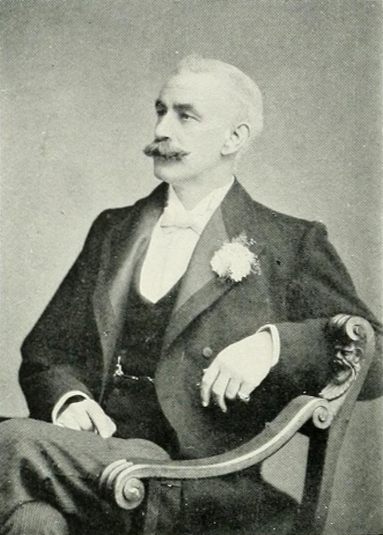 Photographic portrait of Nicholas Lane Jackson, taken by Elliott & Fry, Baker Street, London. Date unknown; published in 1905. Original Caption: "The Founder of the Corinthians: Mr. N. L. Jackson"